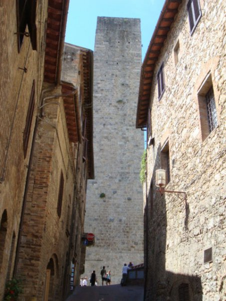 San Gimignano tour 2009. Via del Corbizzo.